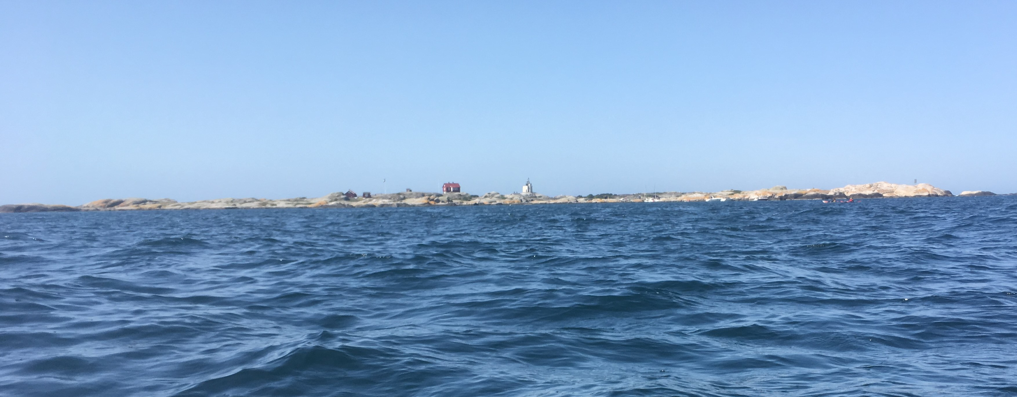 Islands in the very south of the Archipelago of Gothenburg.